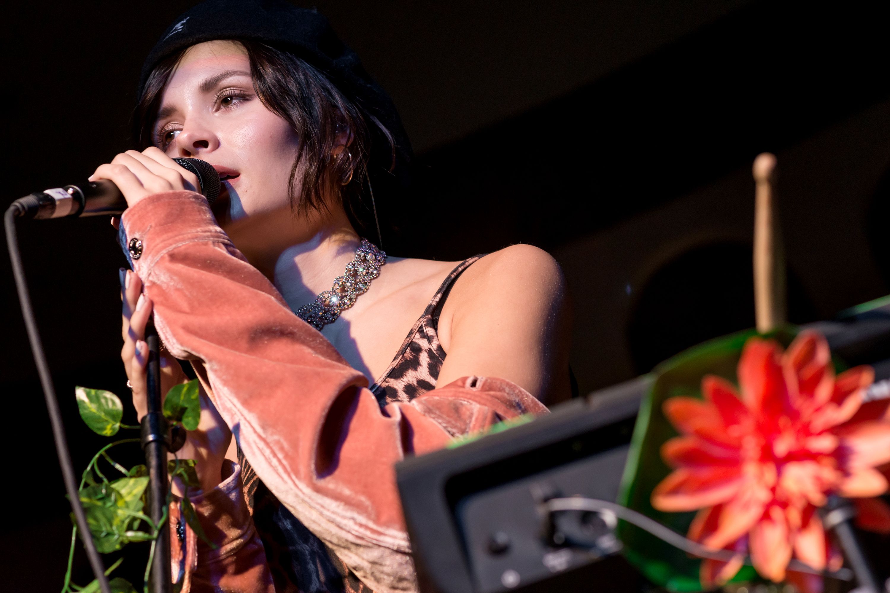 Nina Nesbitt performing live at The Peppermint Club in Los Angeles, California, on Monday, October 23, 2017.